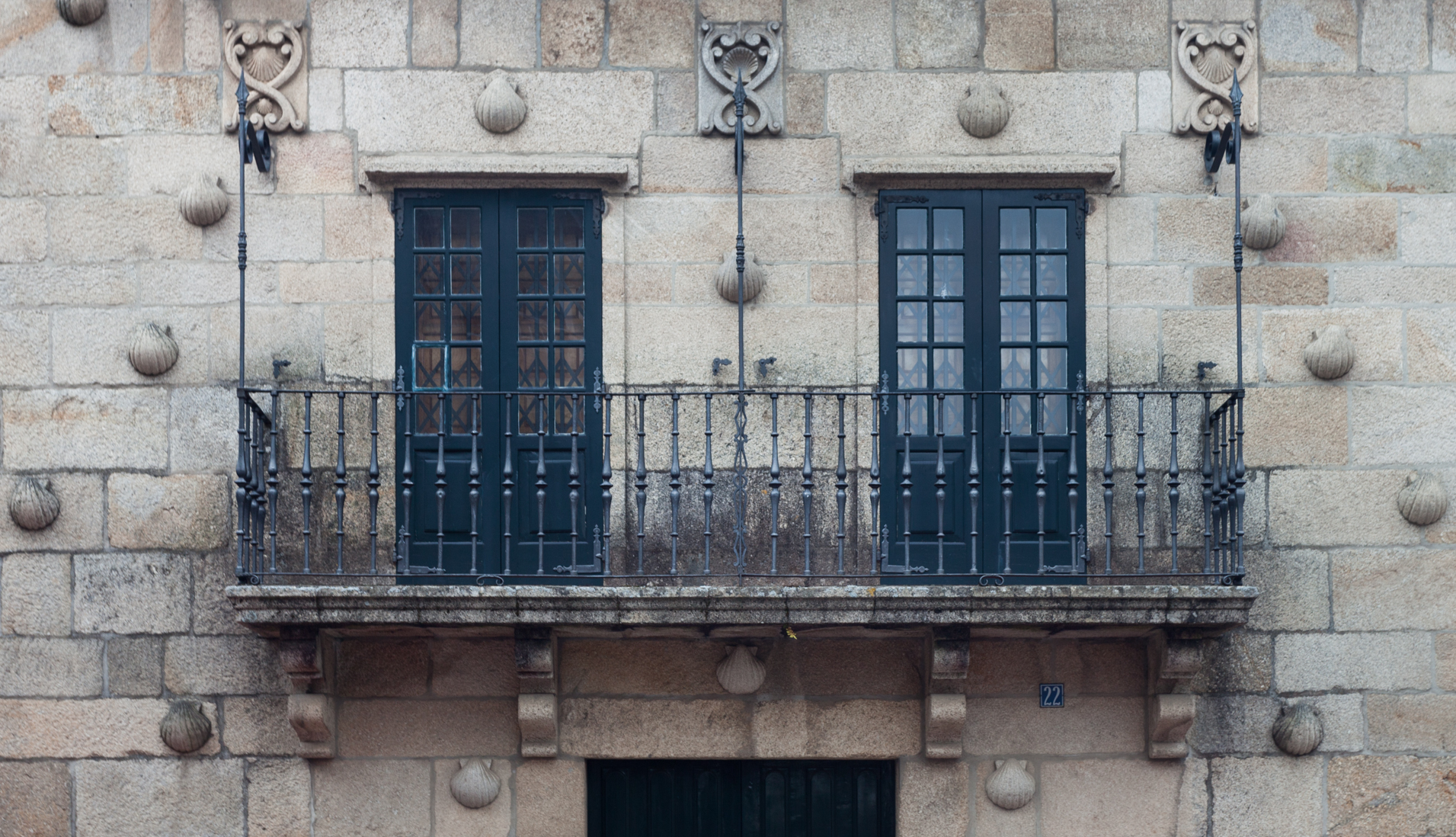 Balcony of the House of the Shells. Cambados, Galicia (Spain).